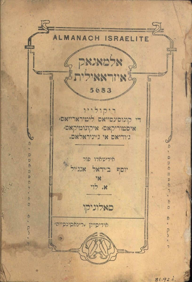 Almanac Israelite